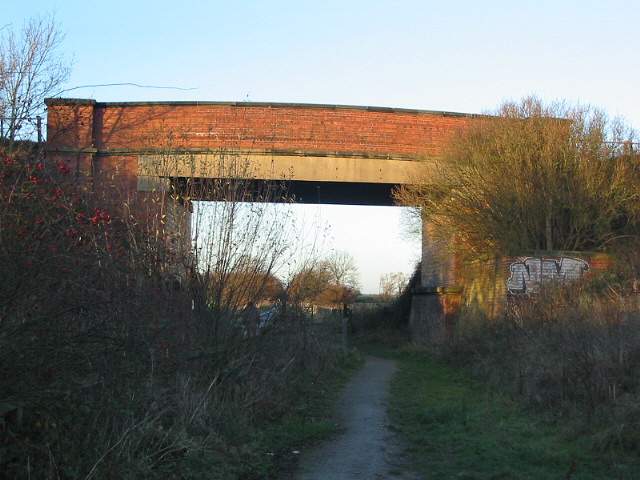 The Roadbridge over Trans Pennine Trail on former York-Selby railway line